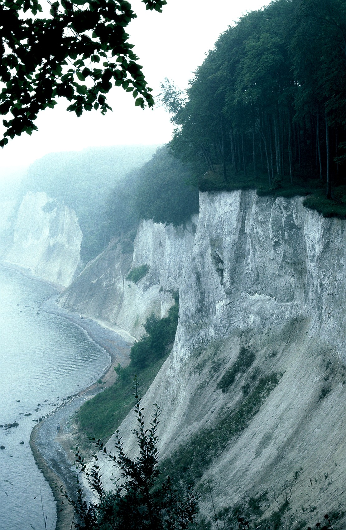 Jasmund National Park (Germany)